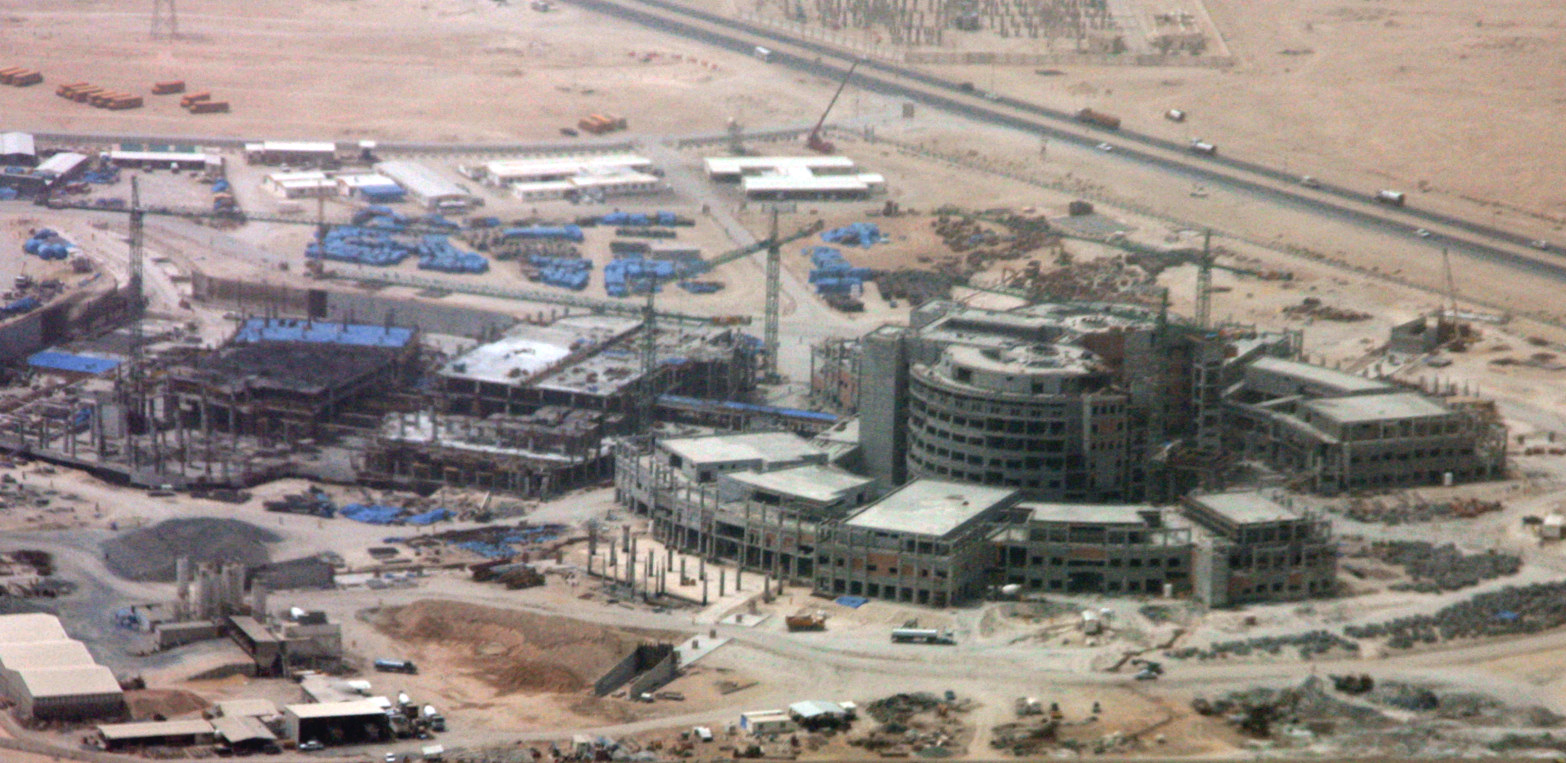 Construction of new state-of-the-art hospital in Al Wakrah, Qatar. To be opened 2011.